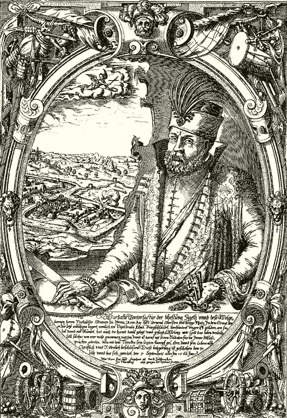 Portrait of Nikola Šubić Zrinski (1507-1566)